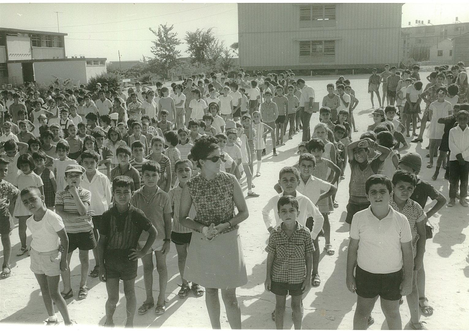 Events in Israel